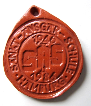 Commemorative pendant made of clay on the 40th anniversary of the SAS.